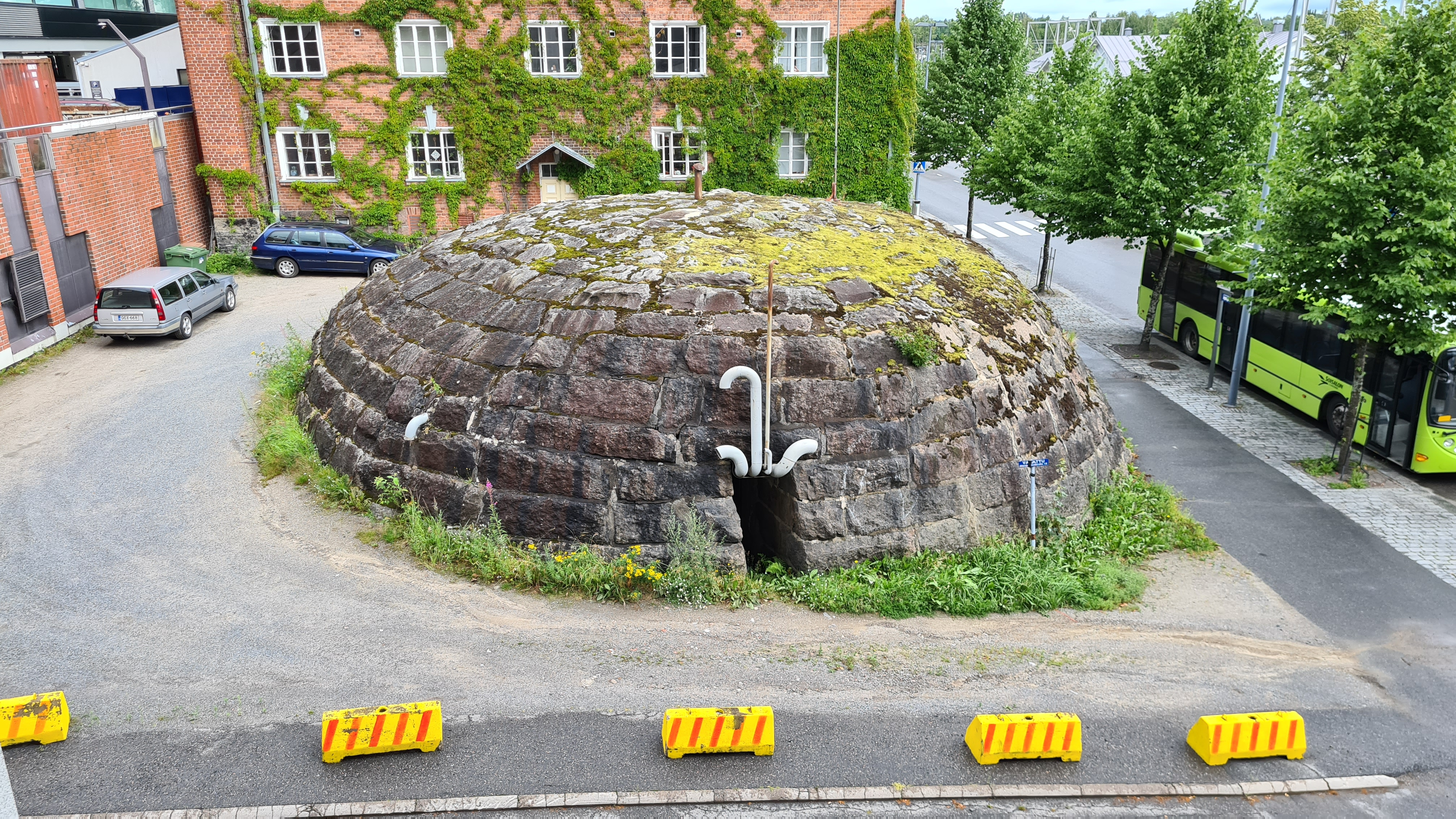 A bomb shelter built in the early 1940s. It was designated as a war-time train station building and its mission was to secure the rail traffic in all conditions.